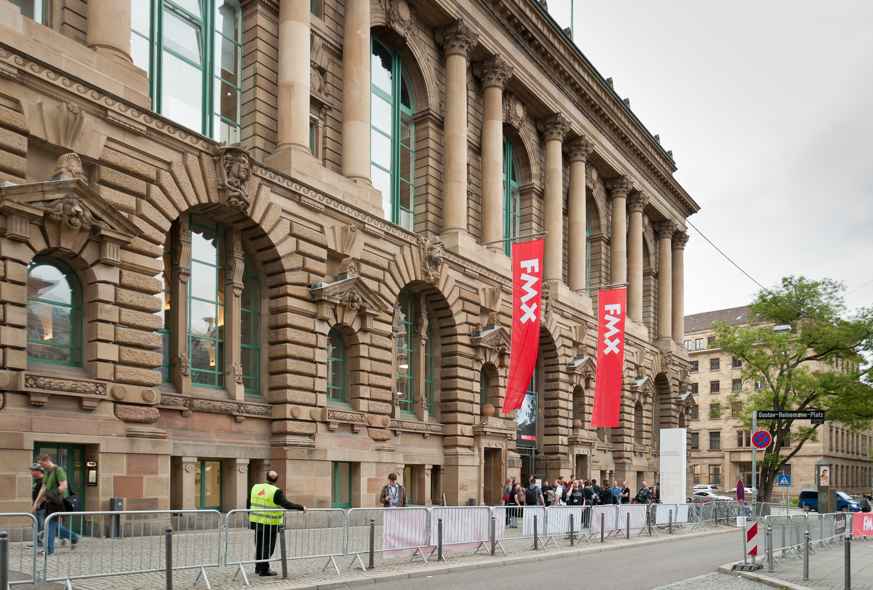 Haus der Wirtschaft, Stuttgart, Germany during FMX 2012